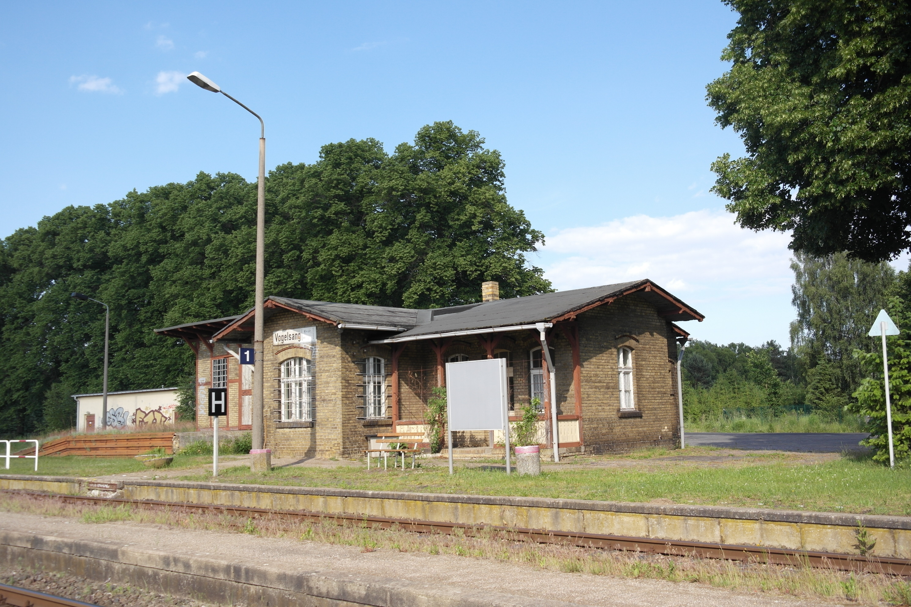 Vogelsang train station, cultural heritage